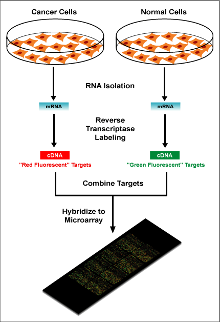 Cartoon schematic of a typical microarray experiment.